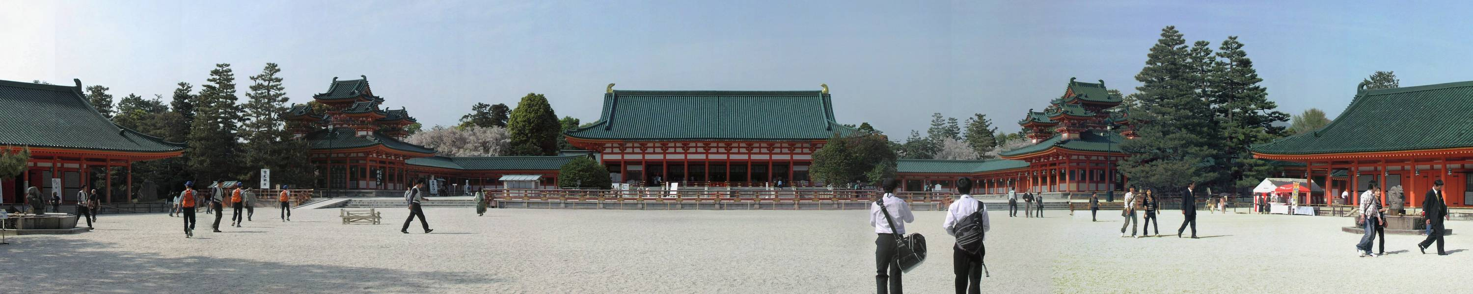 Panoramic view of the Heian-jingu, a shinto shrine in Kyoto